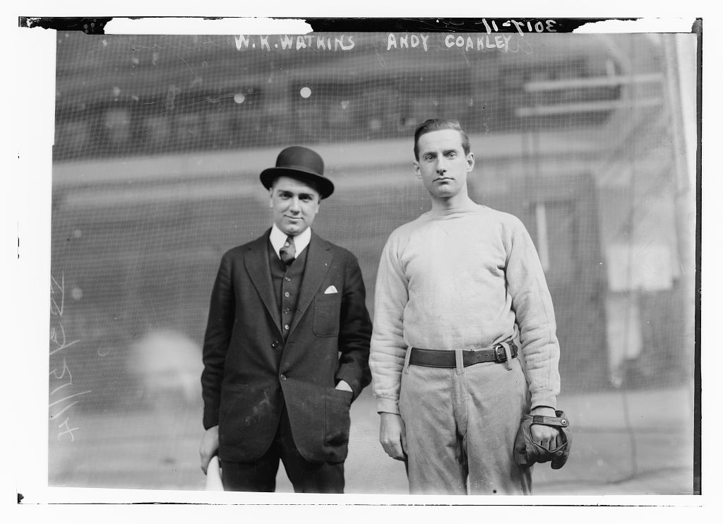 Bain News Service,, publisher. W. K. Watkins - Andy Coakley PD-US [between ca. 1910 and ca. 1915] 1 negative : glass ; 5 x 7 in. or smaller. Notes: Title from unverified data provided by the Bain News Service on the negatives or caption caption cards. Forms part of: George Grantham Bain Collection (Library of Congress). Format: Glass negatives. Repository: Library of Congress, Prints and Photographs Division, Washington, D.C. 20540 USA, General information about the Bain Collection is available at Persistent URL: Call Number: LC-B2- 3017-11